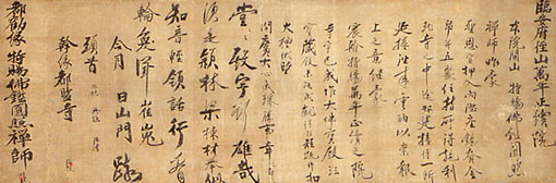 sanmonso (山門疏